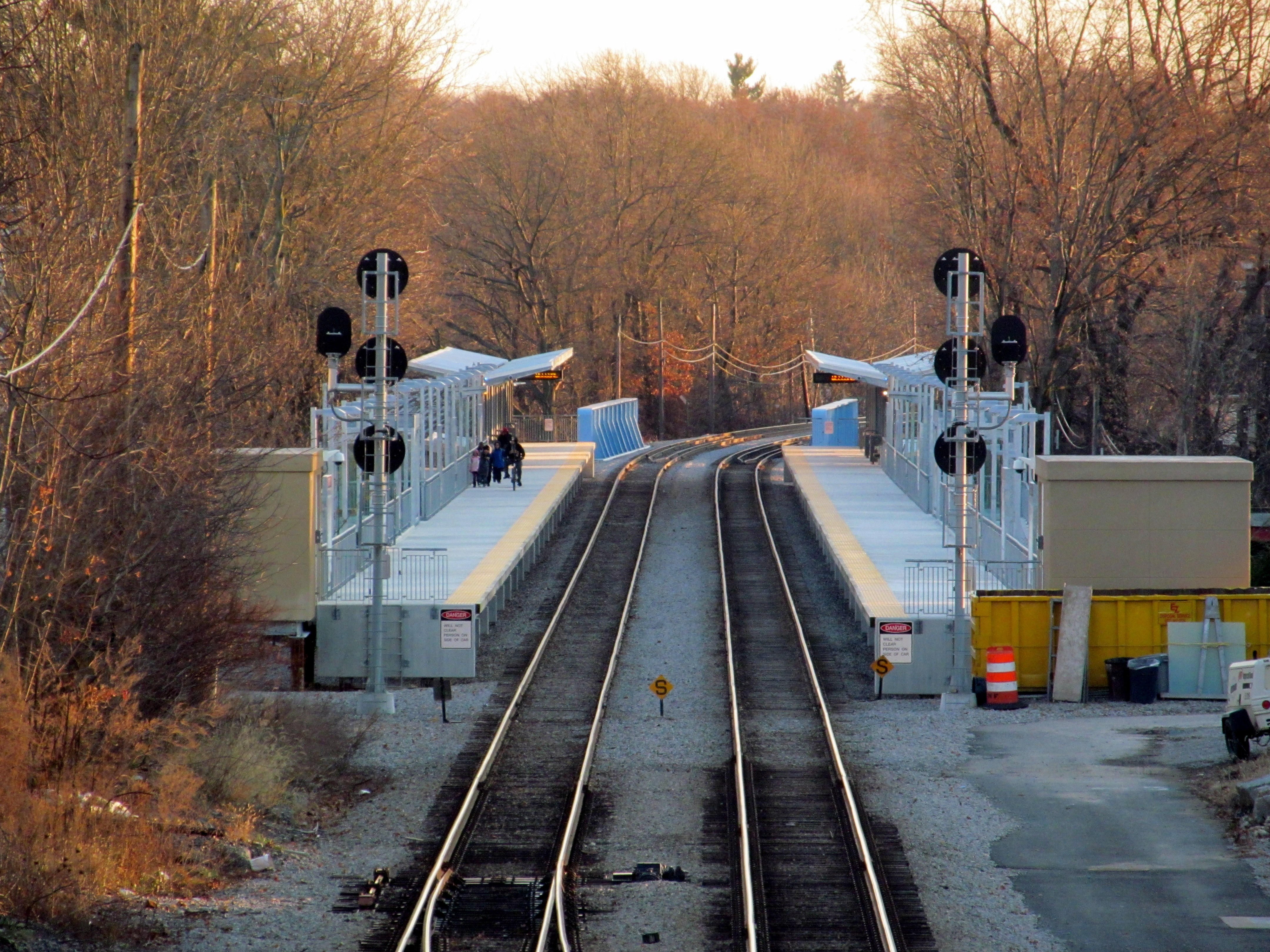 The newly opened Talbot Ave station in Dorchester, viewed from Harvard Street in December 2012